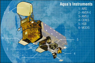 Aqua carries six state-of-the-art instruments in a near-polar low-Earth orbit. The six instruments are the Atmospheric Infrared Sounder (AIRS), the Advanced Microwave Sounding Unit (AMSU-A), the Humidity Sounder for Brazil (HSB), the Advanced Microwave Scanning Radiometer for EOS (AMSR-E), the Moderate-Resolution Imaging Spectroradiometer (MODIS), and Clouds and the Earth's Radiant Energy System (CERES). Each has unique characteristics and capabilities, and all six serve together to form a powerful package for Earth observations.